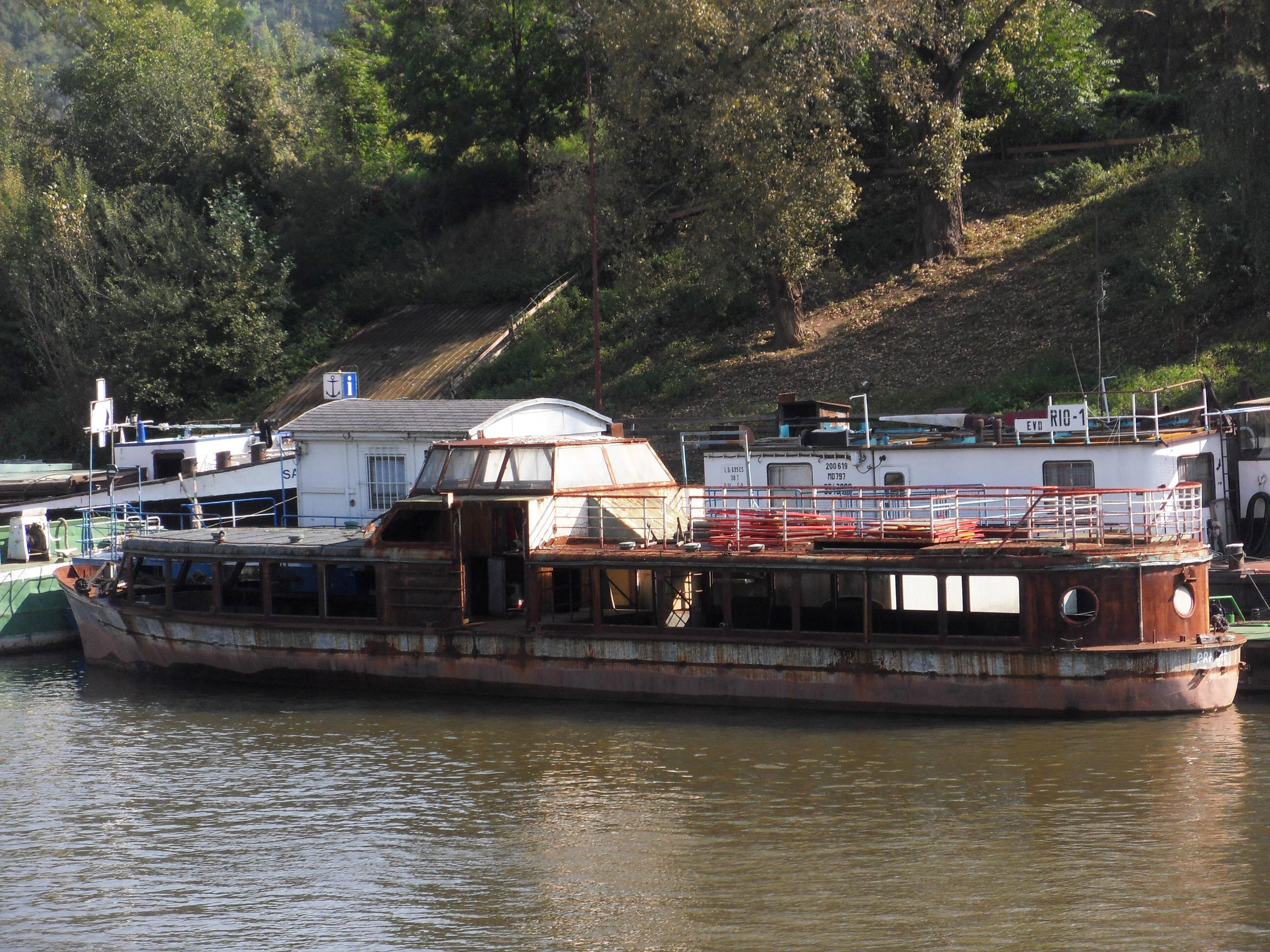 Svoboda ship, Praha, Czech Republic